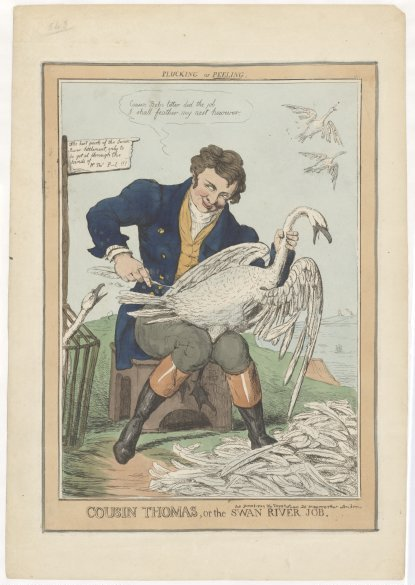 Cousin Thomas, or, the Swan River Job, an 1829 caricature of Thomas Peel; hand-colored etching